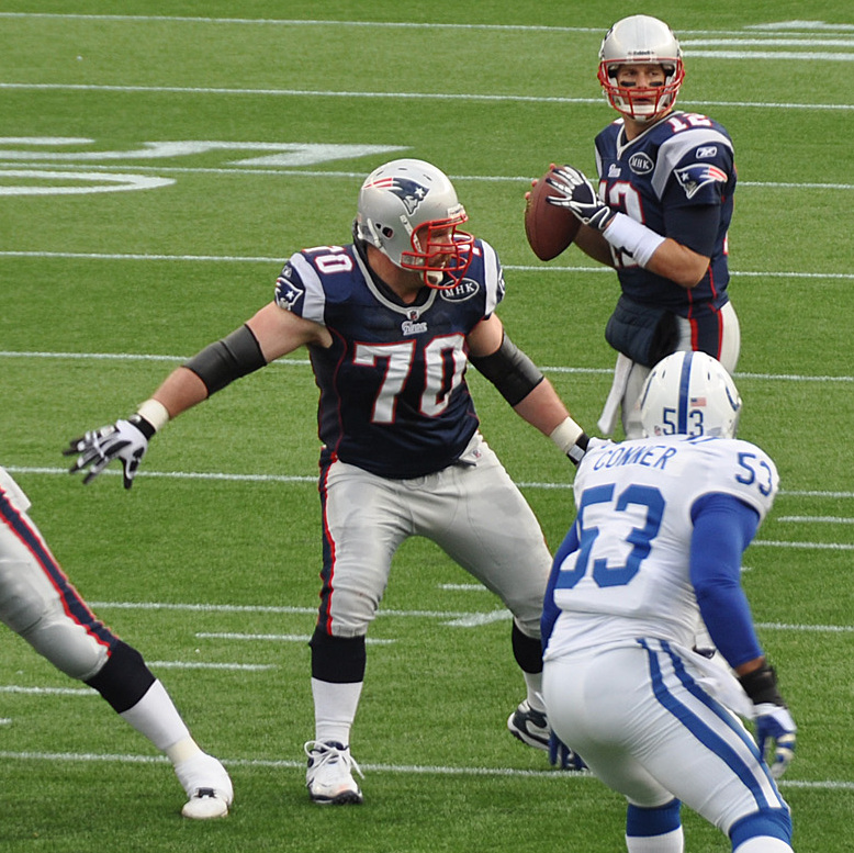 Brady looks for an open receiver as his offensive line forms a pocket around him.